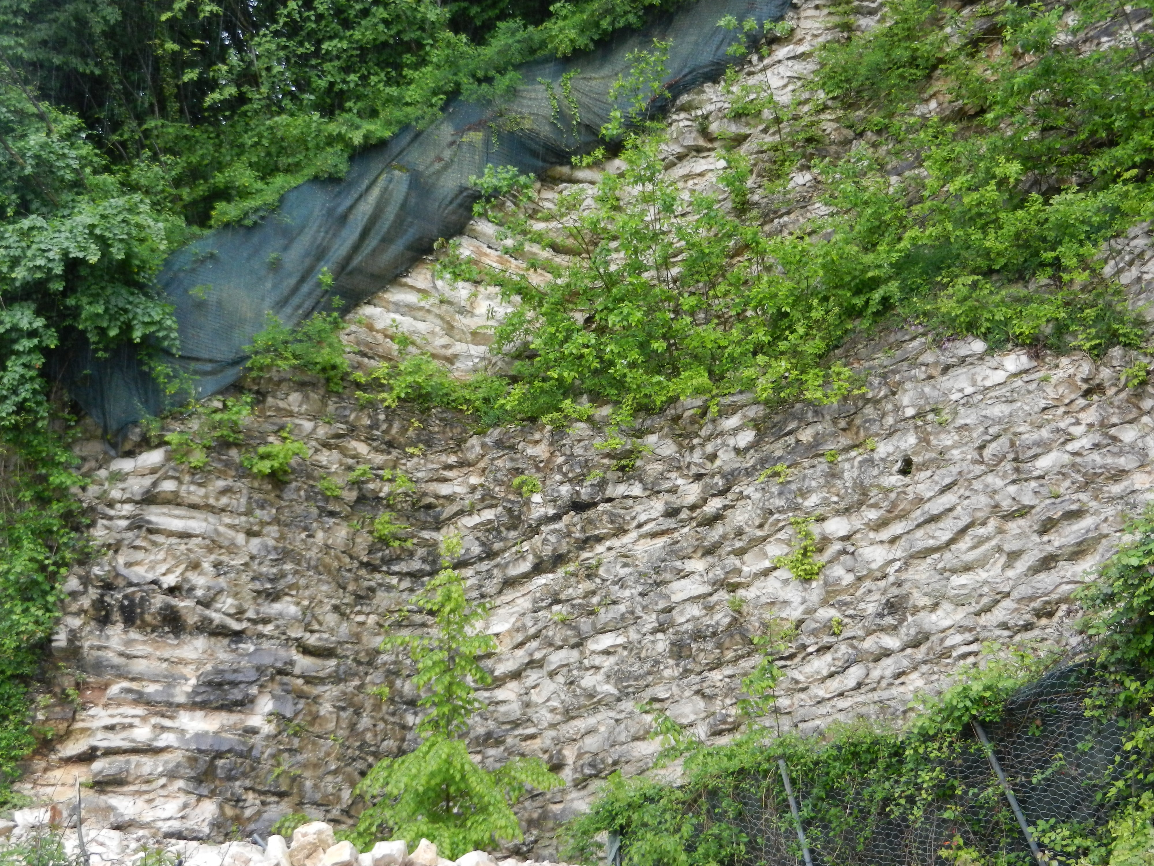 Stratigraphic limestone in Pesciari, Lassinia